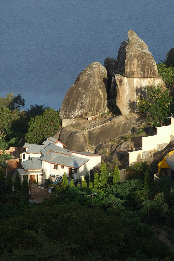 Mwanza city, Tanzania's second largest city